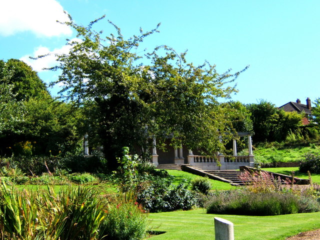 Wensum Park Steps and terracing leading up to Drayton Road